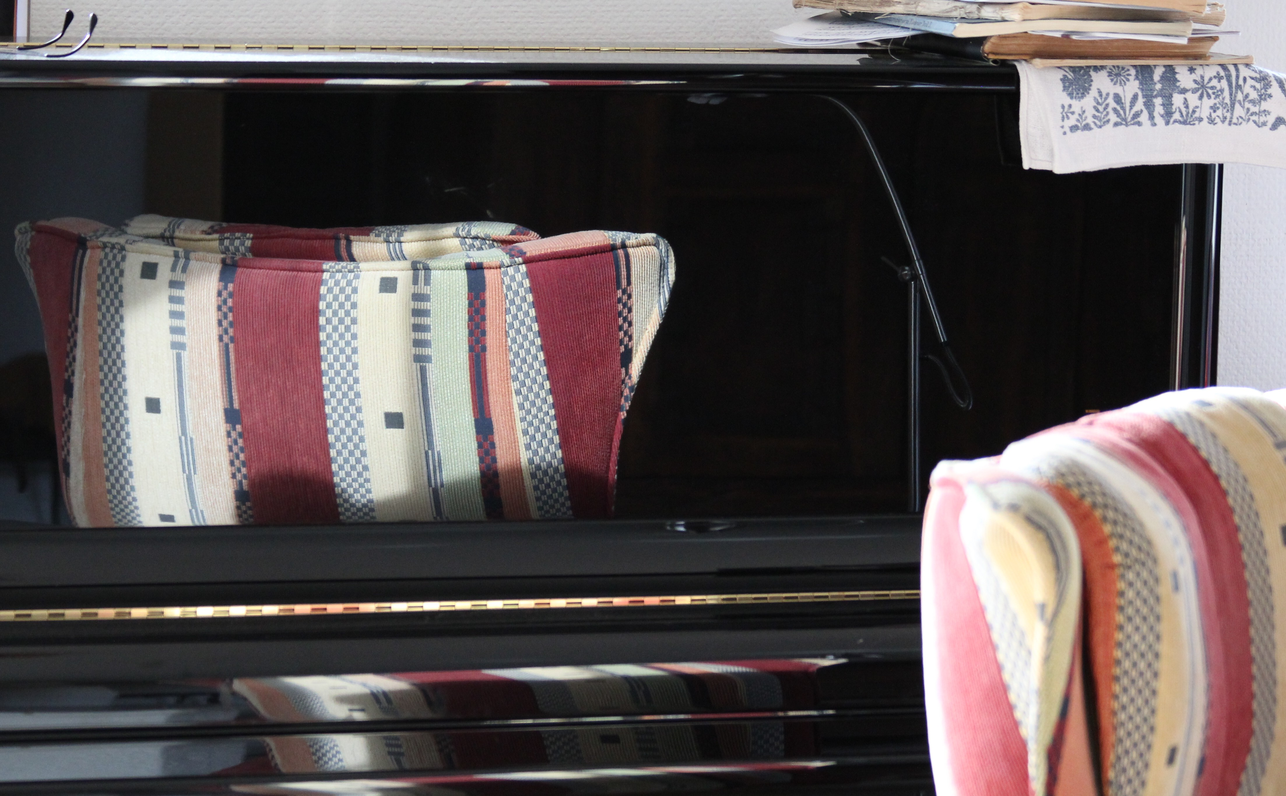 Klavierlack of the modern type is a double clear-coat finish